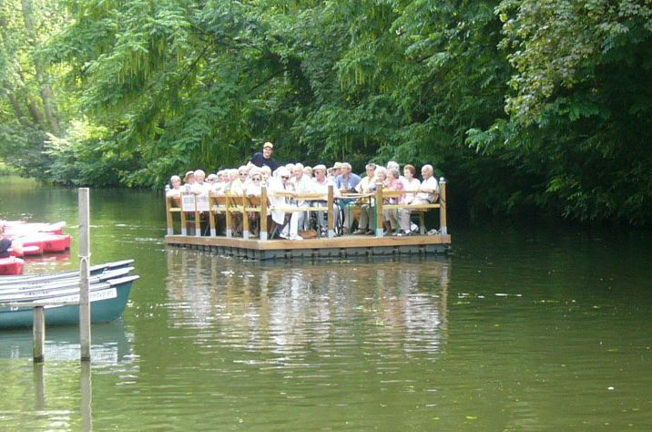 Recreational raft, seen on the River Oker in Braunschweig, Germany.